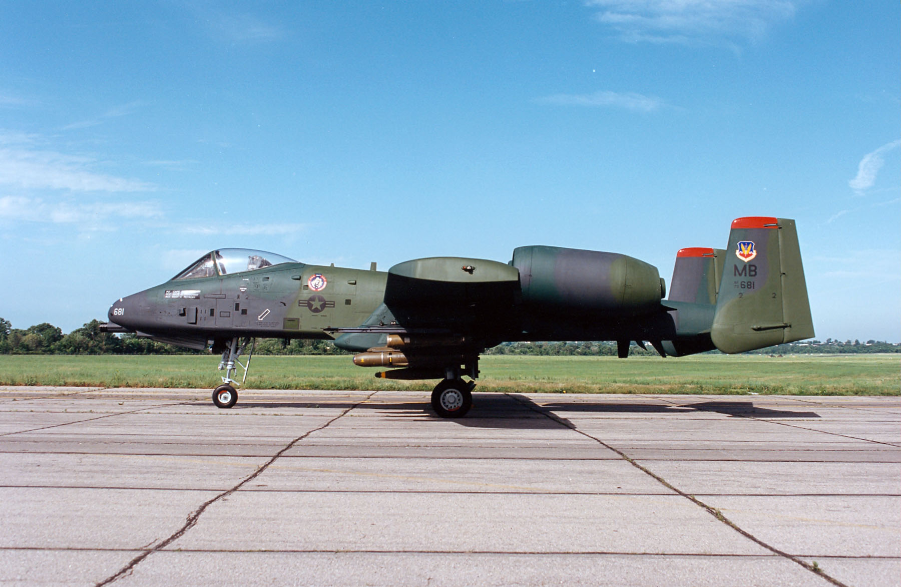 A U.S. Air Force Fairchild Republic A-10A Thunderbolt II ("Warthog") 78-0681 in the markings of the 354th Tactical Fighter Wing at Myrtle Beach AFB, South Carolina (USA). This aircraft was deployed to King Fhad IAP, Saudi Arabia in August 1990. During Operation Desert Storm, it was flown By Capt. Goff in which he earned the Air Force Cross. This aircraft is presently on permanent display at the National Museum of the United States Air Force at Wright-Patterson AFB, Ohio (USA).